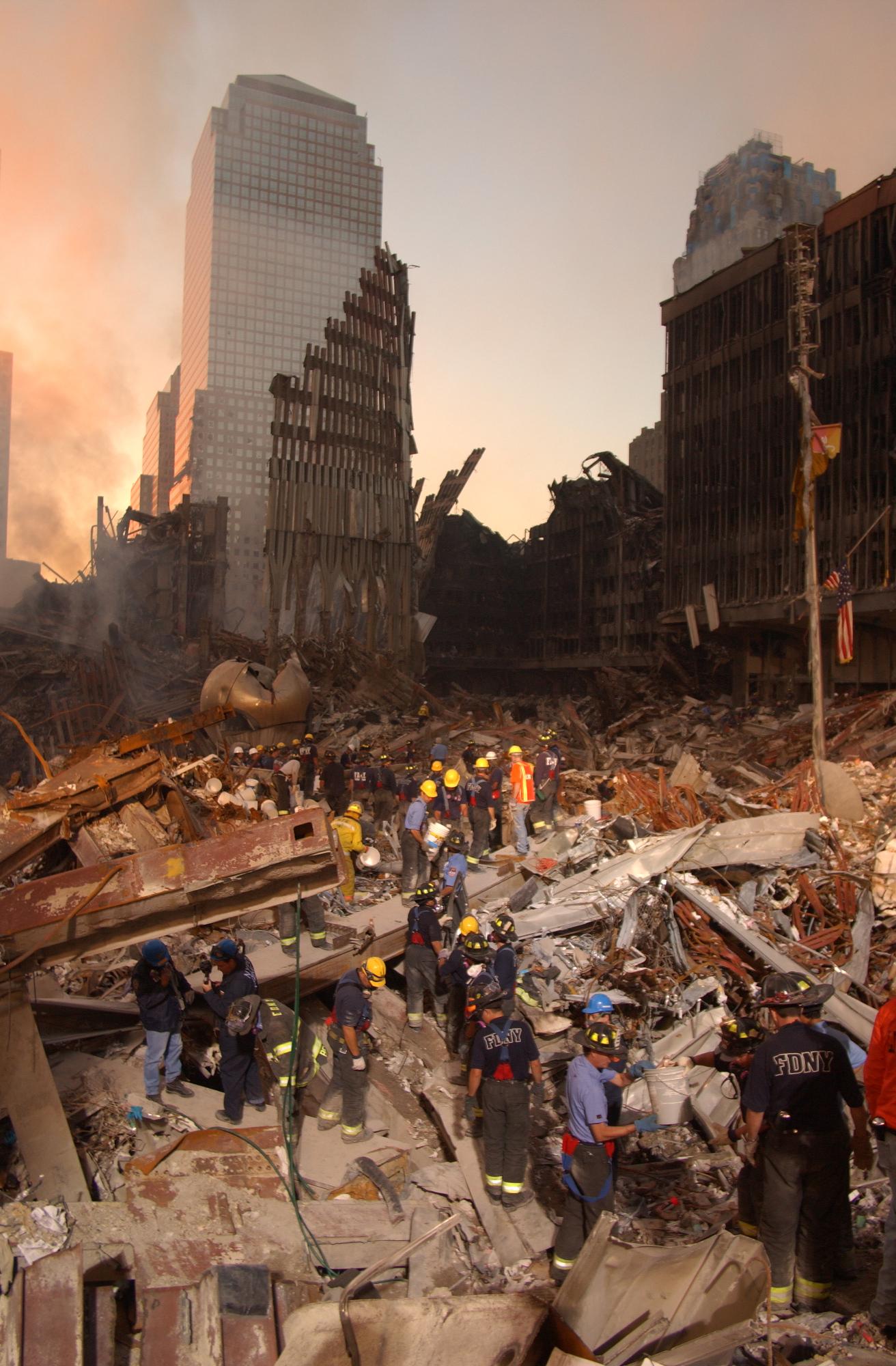 New York City, NY, September 16, 2001 -- Fire fighters and Urban Search and Rescue teams work amidst the rubble of the collapsed World Trade Center. Photo by Andrea Booher/ FEMA News Photo